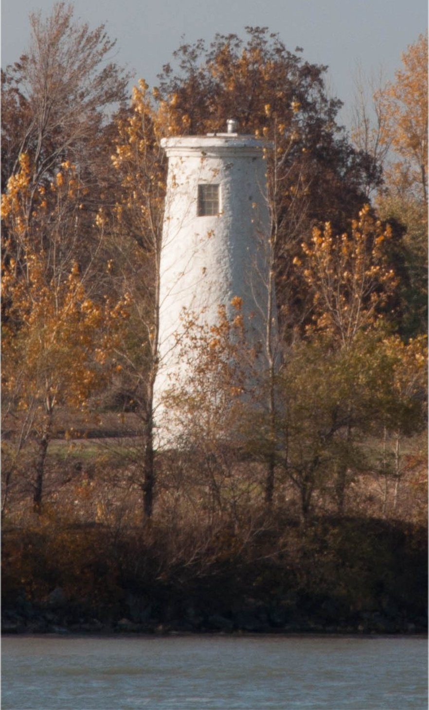 Bois Blanc Island Lighthouse